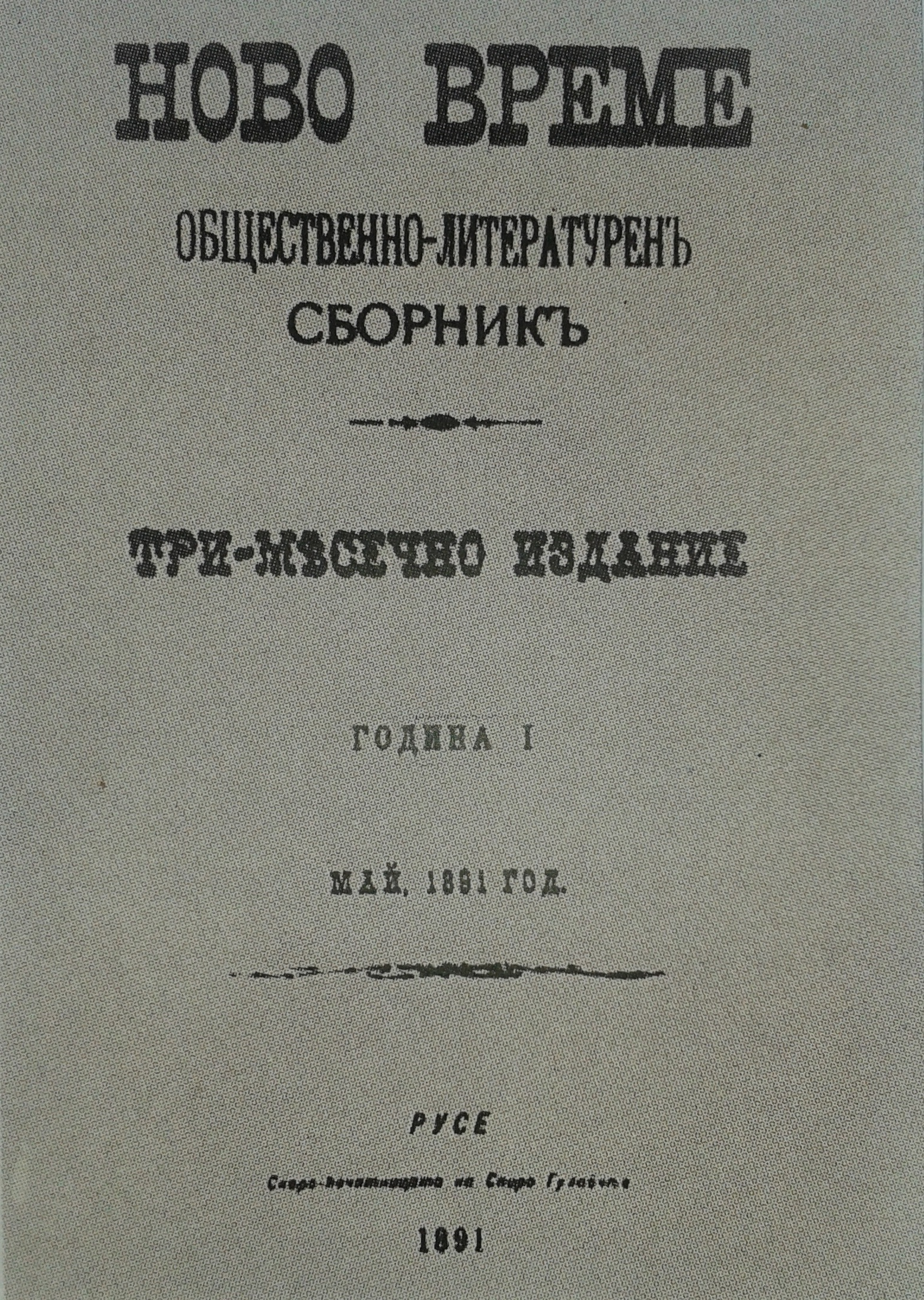 Novo Vreme